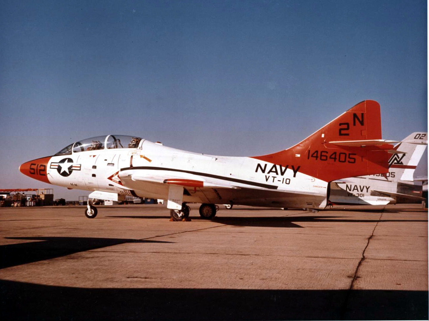 A U.S. Navy Grumman TF-9J Cougar (BuNo 146405) of Training Squadron VT-10 at Naval Air Station Miramar, California (USA), in 1973. VT-10 was the last Cougar squadron and flew the TF-9J until 1974.